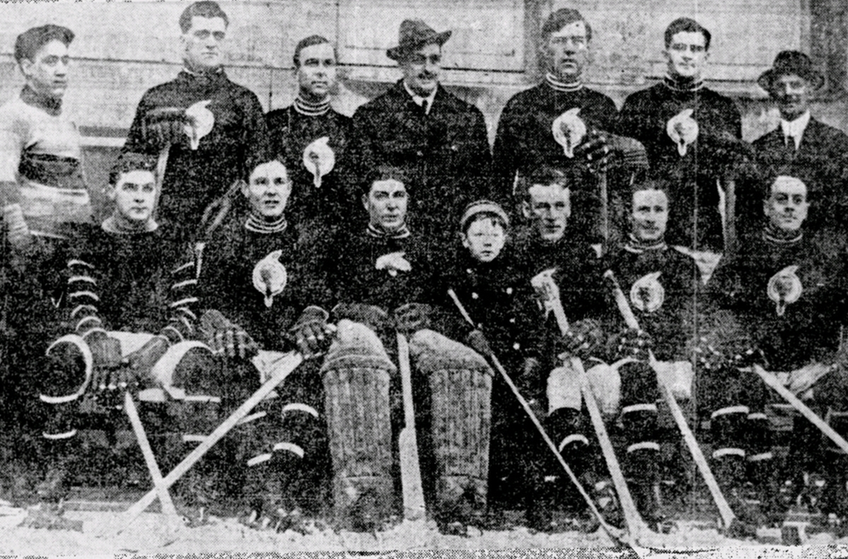 Toronto Tecumsehs team picture, December 1912. Standing, left to right: trainer Tom Daly, George McNamara, Horace Gaul, Cap Williams, Con Corbeau, Howard McNamara, Billie Pop. Sitting: Alex Nicholson, Teddy Oke, manager & goaltender Billy Nicholson, the mascot, Art Throop, Fred Strike, Ernie Liffiton.